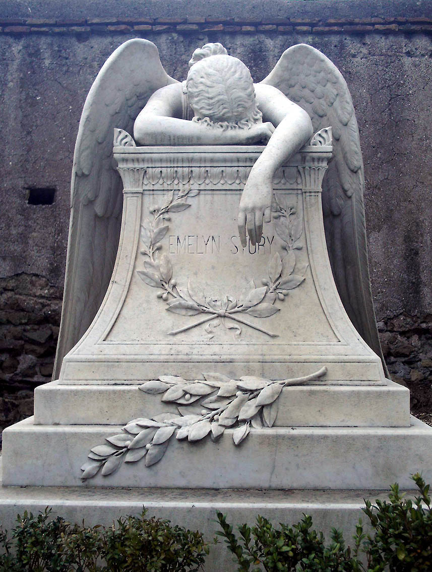 Angel of grief, a 1894 sculpture by William Wetmore Story which serves as the grave stone of the artist and his wife Emelyn at the Protestant Cemetery, Rome.